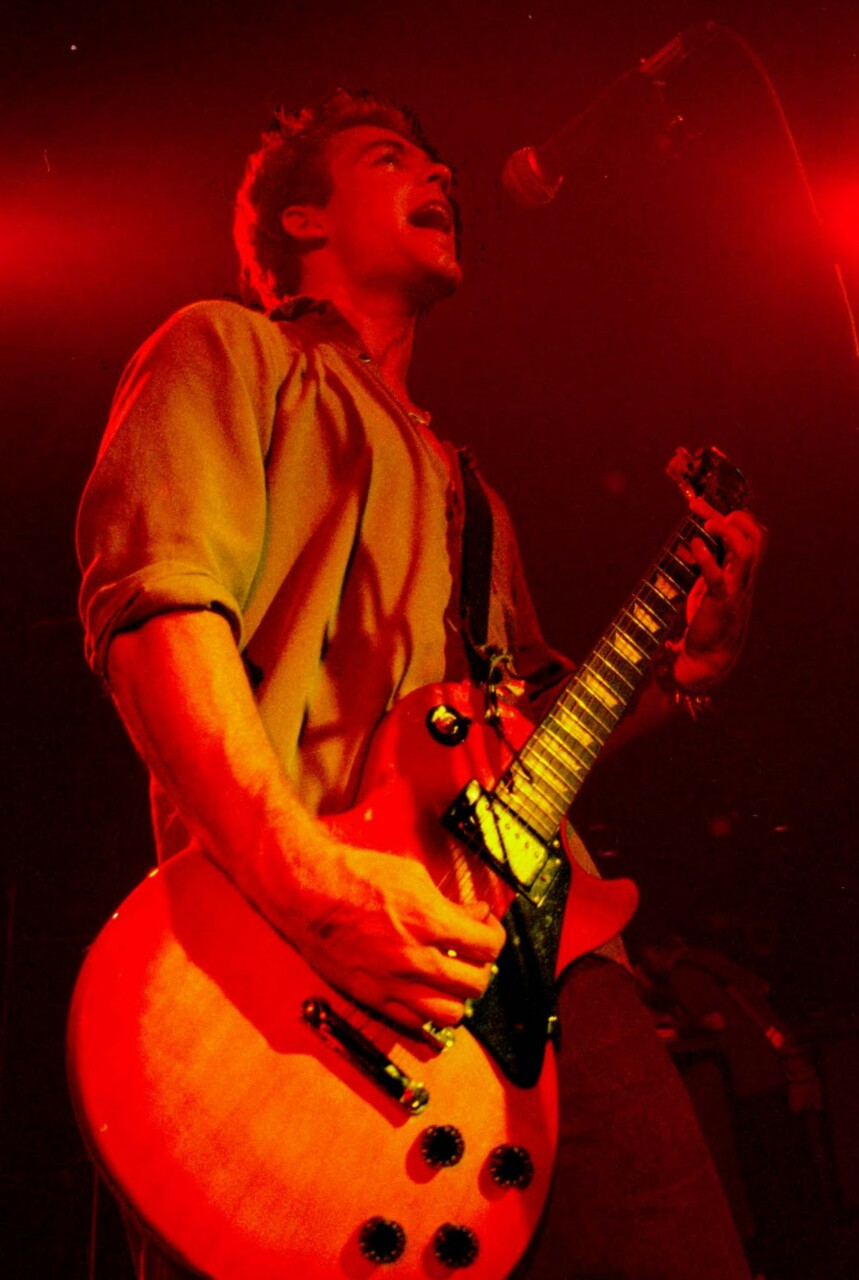 Photo of rock group level